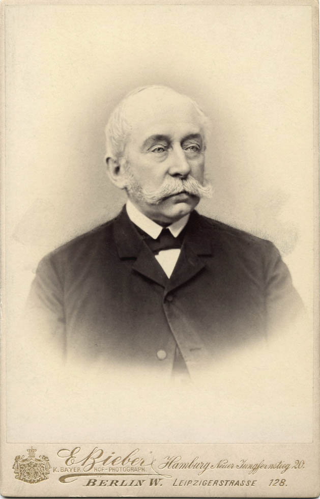 Adolph Godeffroy Portrait about 1890